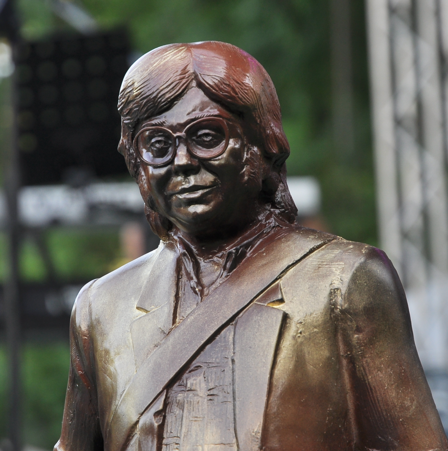 The model for a memorial statue of the Bulgarian rock singer and musician Georgi Minchev (1943-2001). The model was officially presented, while raising funds for completing the statue, in front of the public and in front of the photographers to be widely popularized.